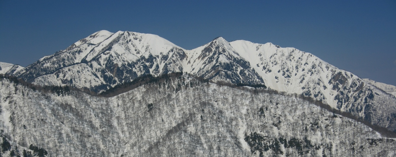 Mount Sanpokuzure seen from Mount Hideri